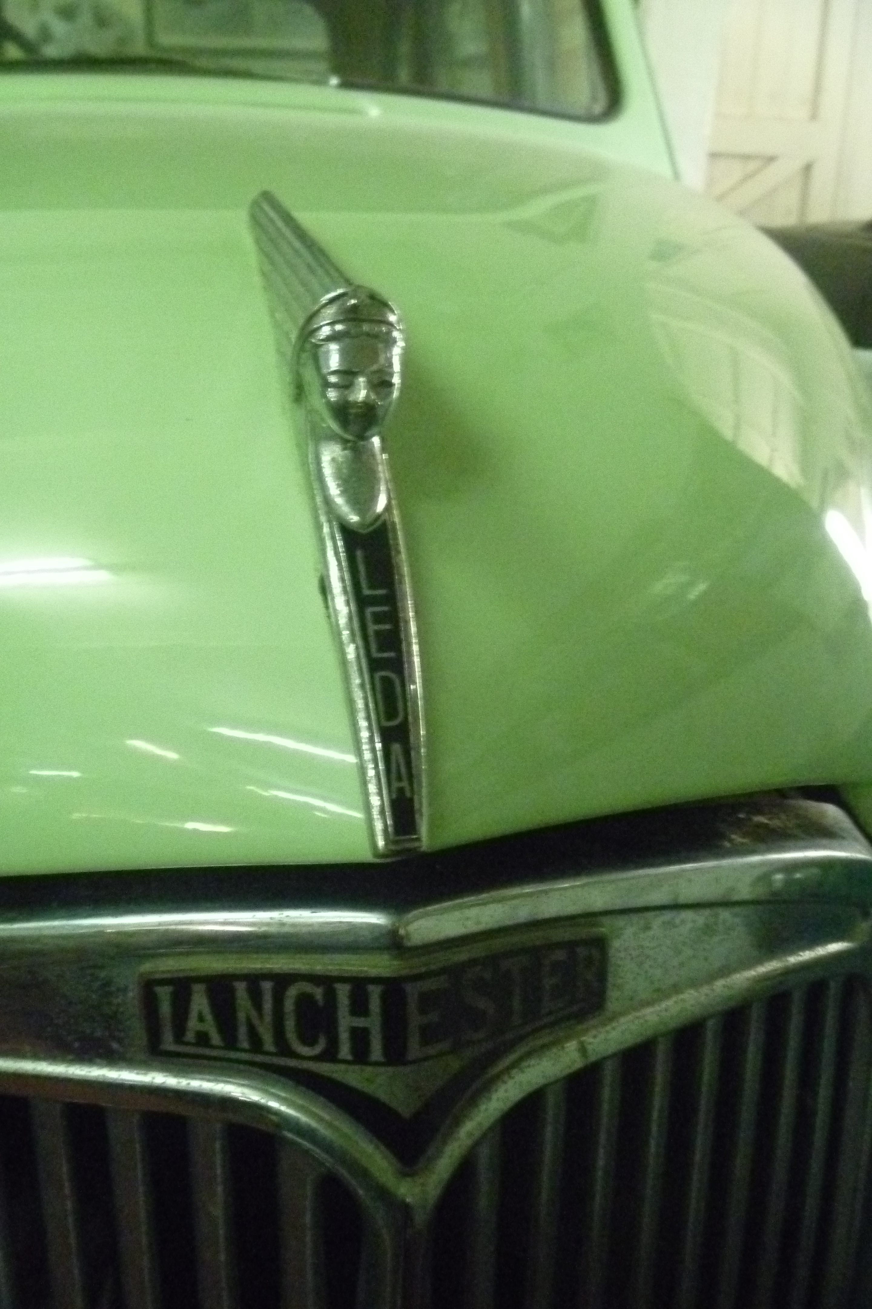 Lanchester Leda showing identifying mark The Lanchester Fourteen was available for export markets with an entirely steel body and was named Lanchester Leda not Fourteen